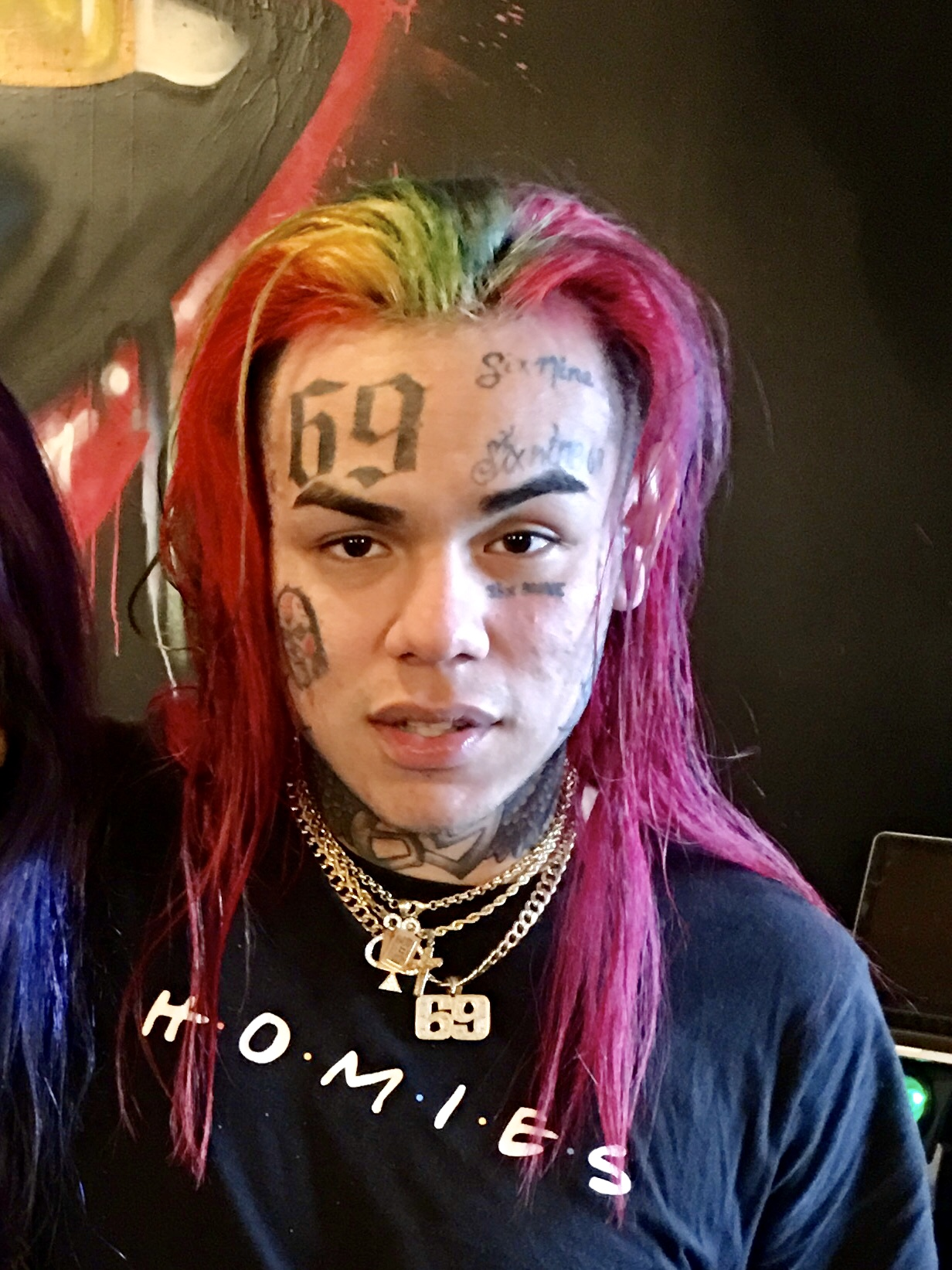 Bushwick rapper. Photo taken on November 12, 2017 at 2:09pm.